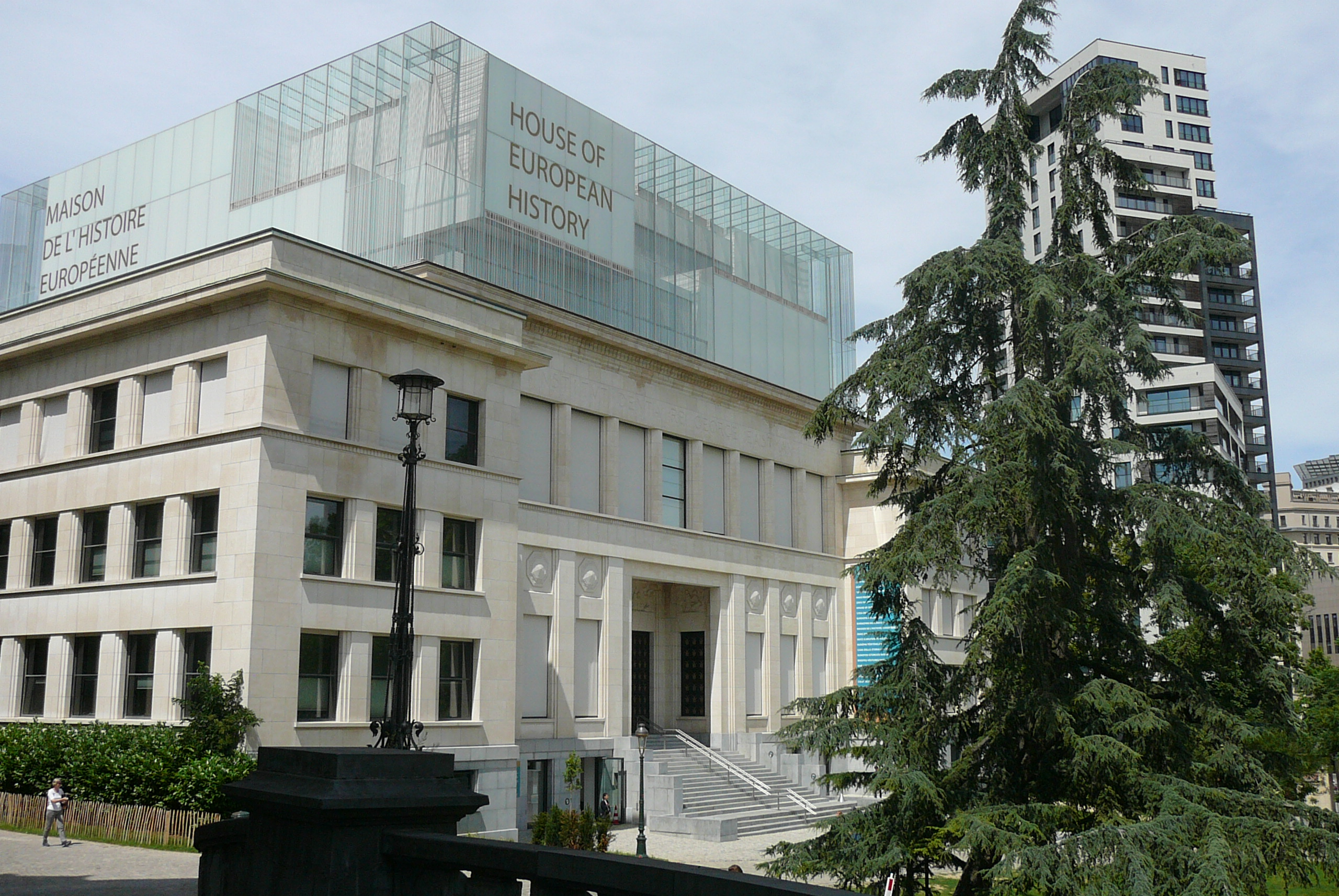 House of European History, former Eastman building, in the Leopold Park, in Brussels, Belgium